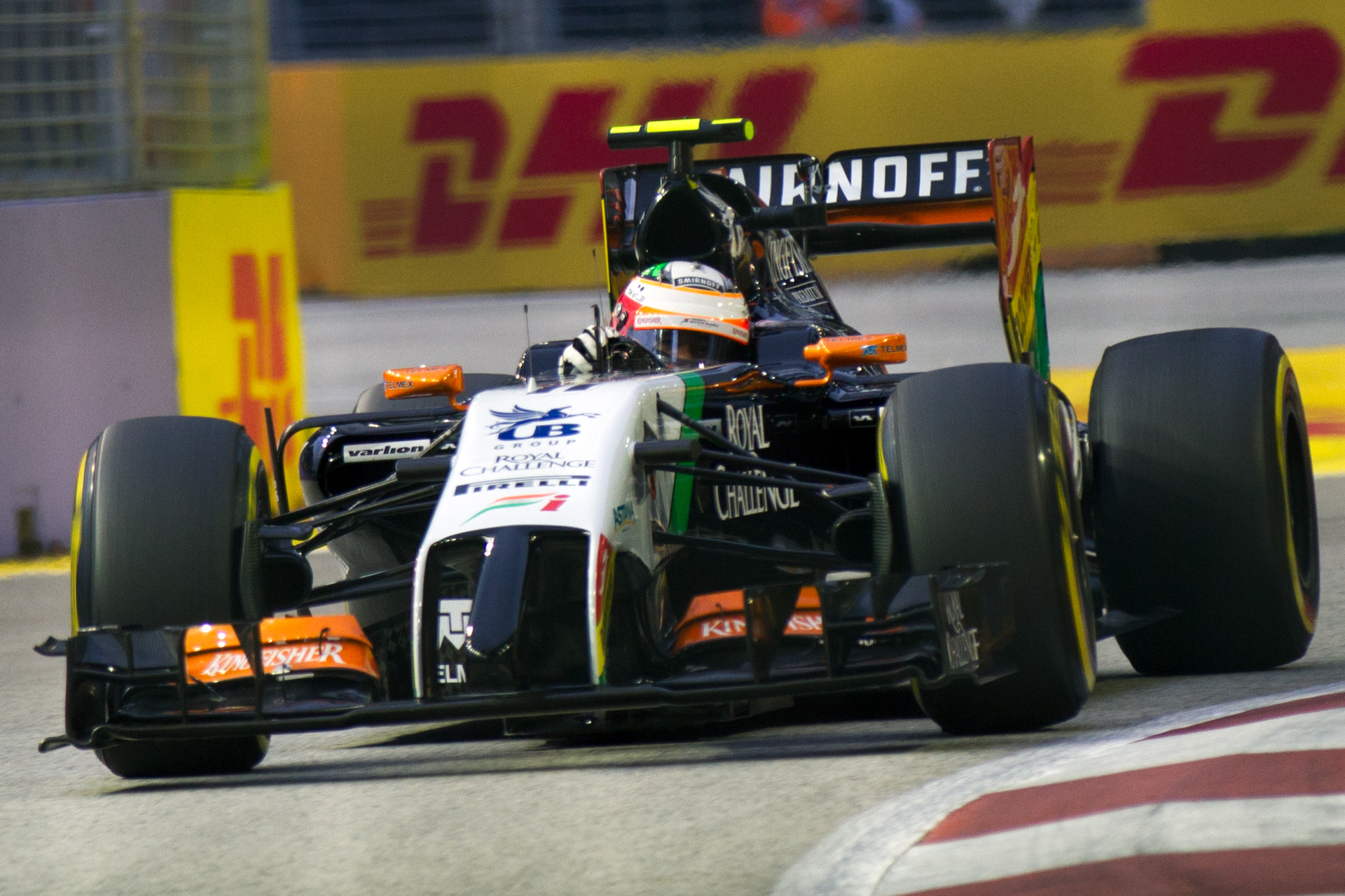 Formula One 2014 Rd.14 Singapore GP: Sergio Pérez (Force India)